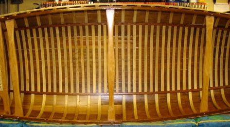 Half ribs and stringers in bottom of Thompson canoe owned and restored by Fred Capanos